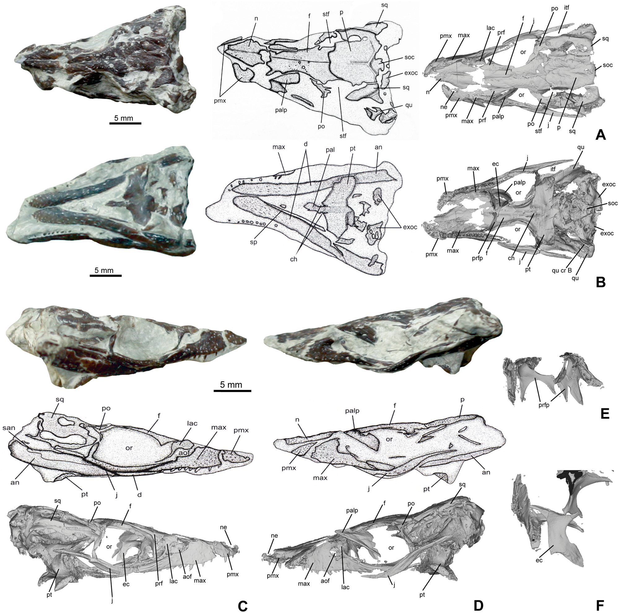 Fig 5. Skull of Knoetschkesuchus langenbergensis gen. nov. sp. nov, DFMMh/FV 605, juvenile specimen. The figure shows photographs of the original specimen, interpretative drawing with labels, and reconstructed 3D data as derived from MeshLab (FOV: Ortho; only skull elements originally visible and important in the respective view are shown). (A) Dorsal aspect. (B) Ventral aspect. (C) Right lateral aspect. (D) Left lateral aspect. (E) Caudal view showing isolated prefrontals with prefrontal pillars as 3D reconstruction. (F) Prefrontals and left ectopterygoid in caudal aspect, 3D reconstruction. For anatomical abbreviations, see text. 3D images are not to scale.